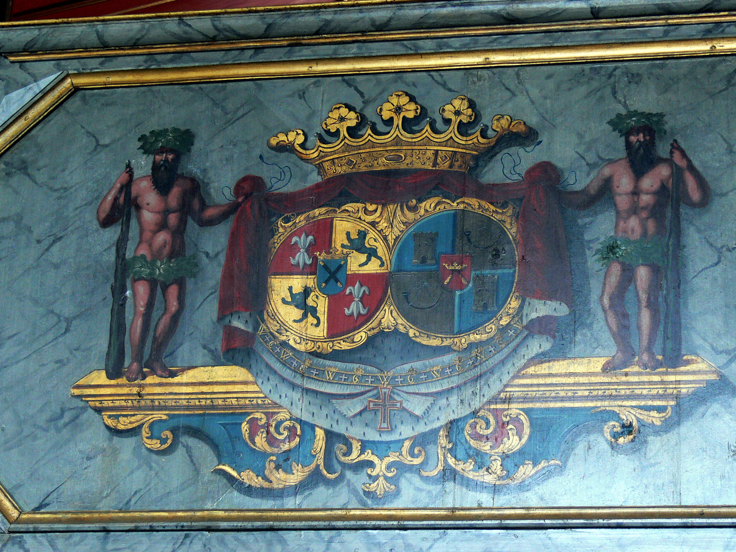 Saint Nicholas parish church in Møgeltønder ( Denmark ). Souvereign´s box: Coats of arms of the Schack familiy.